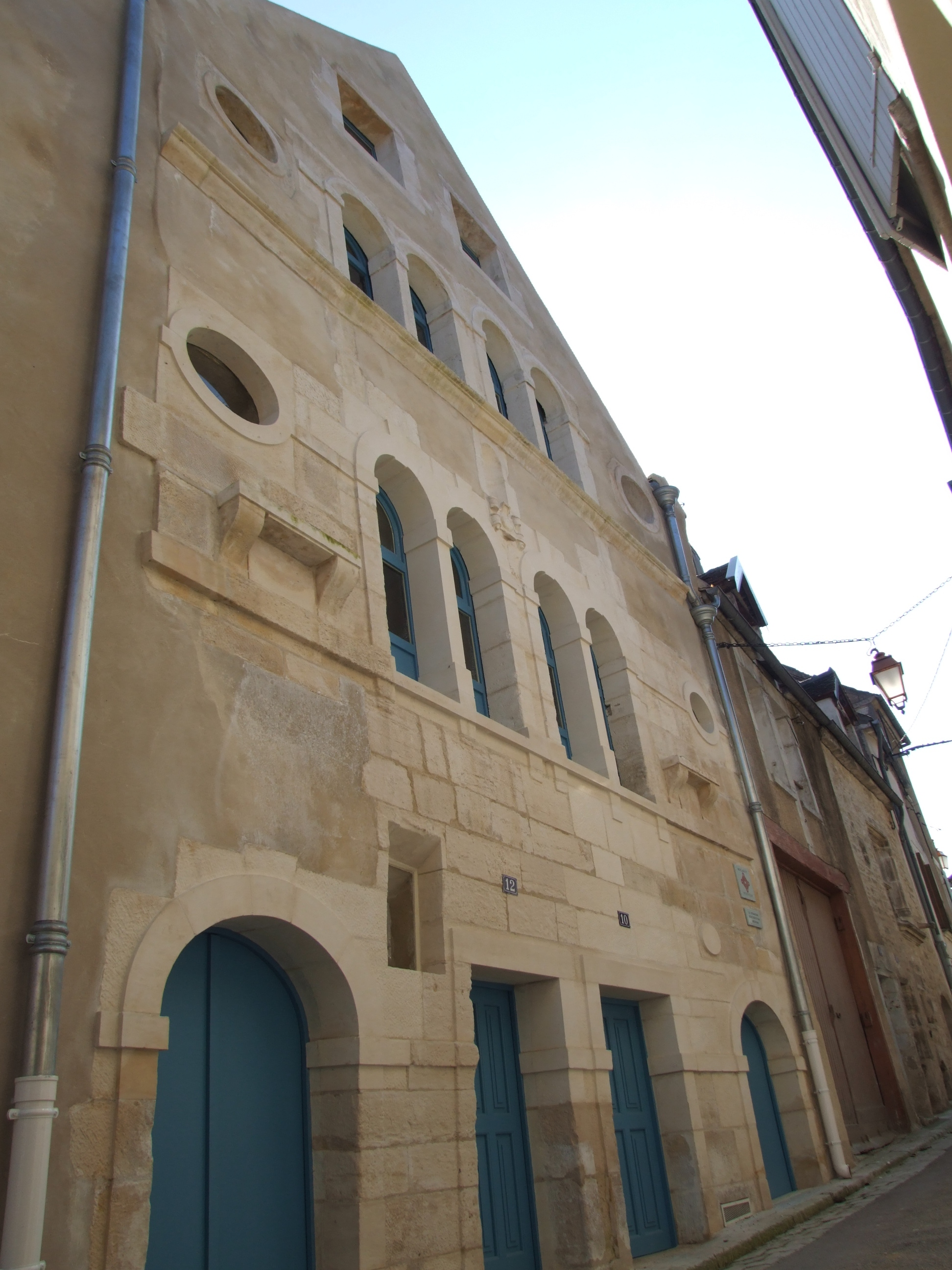 Chablis, Burgundy, FRANCE